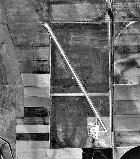 USGS digital orthophoto of Fort Morgan Municipal Airport in Fort Morgan, Colorado, United States